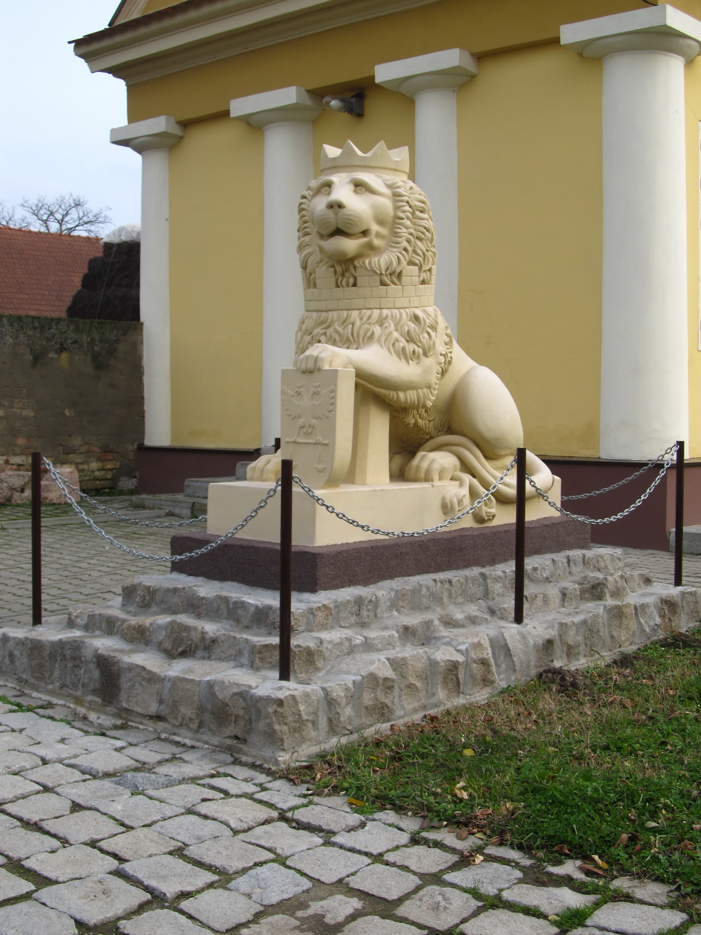 Maize store in Novo Miloševo - Guardian lion of Karácsonyi family coat of arms